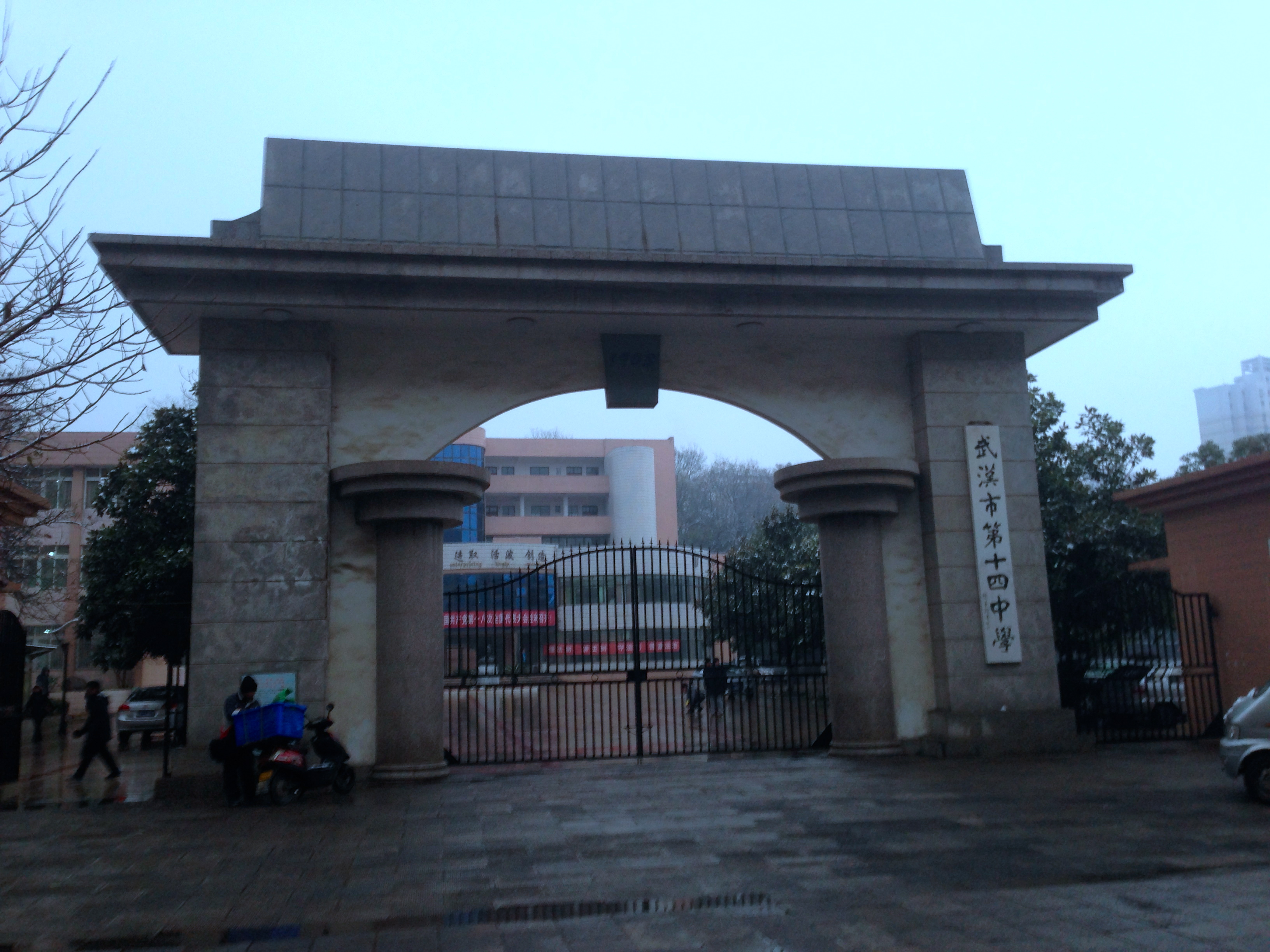 Wuhan No. 14 Middle School